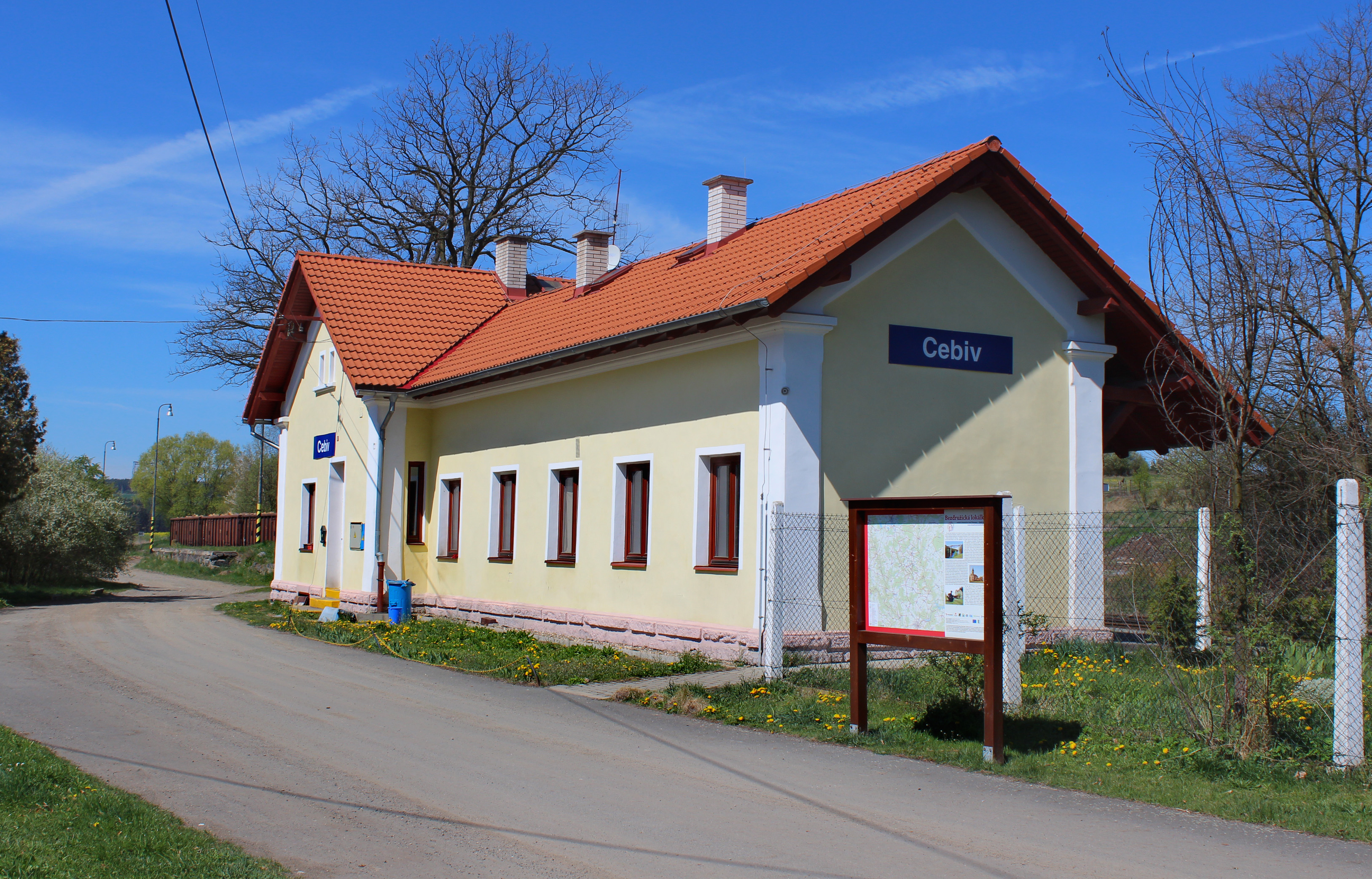 Train station in Cebiv village, Czech Republic